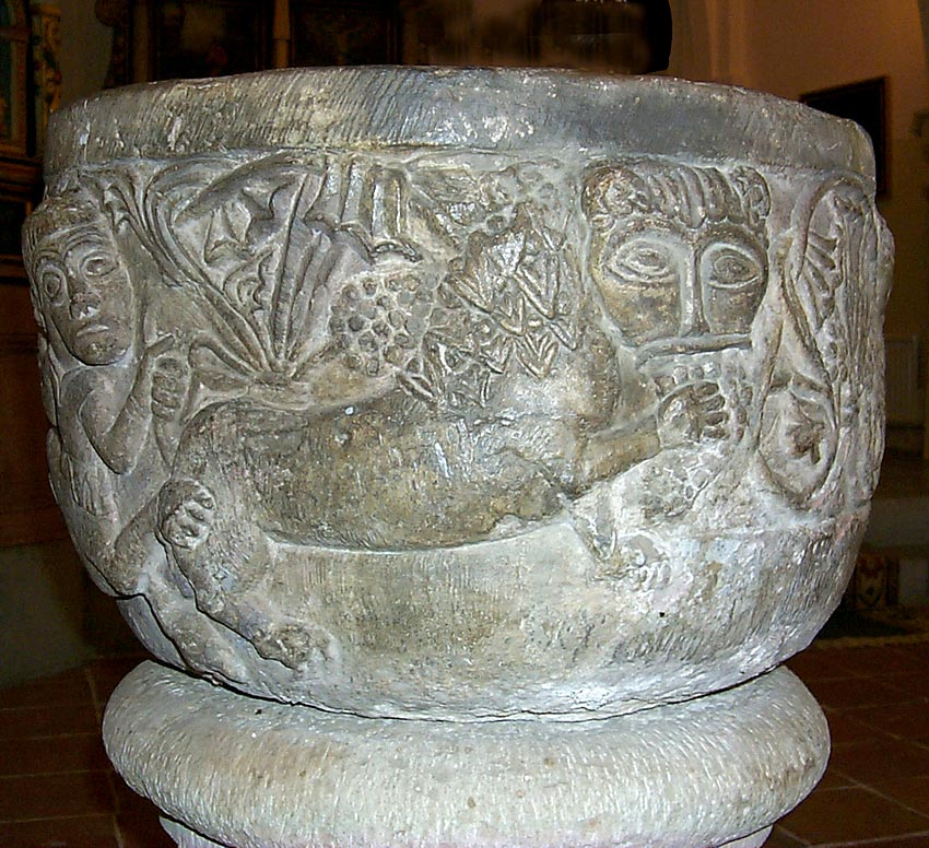 Baptismal font from Glostorp church, Sweden. About 1150.